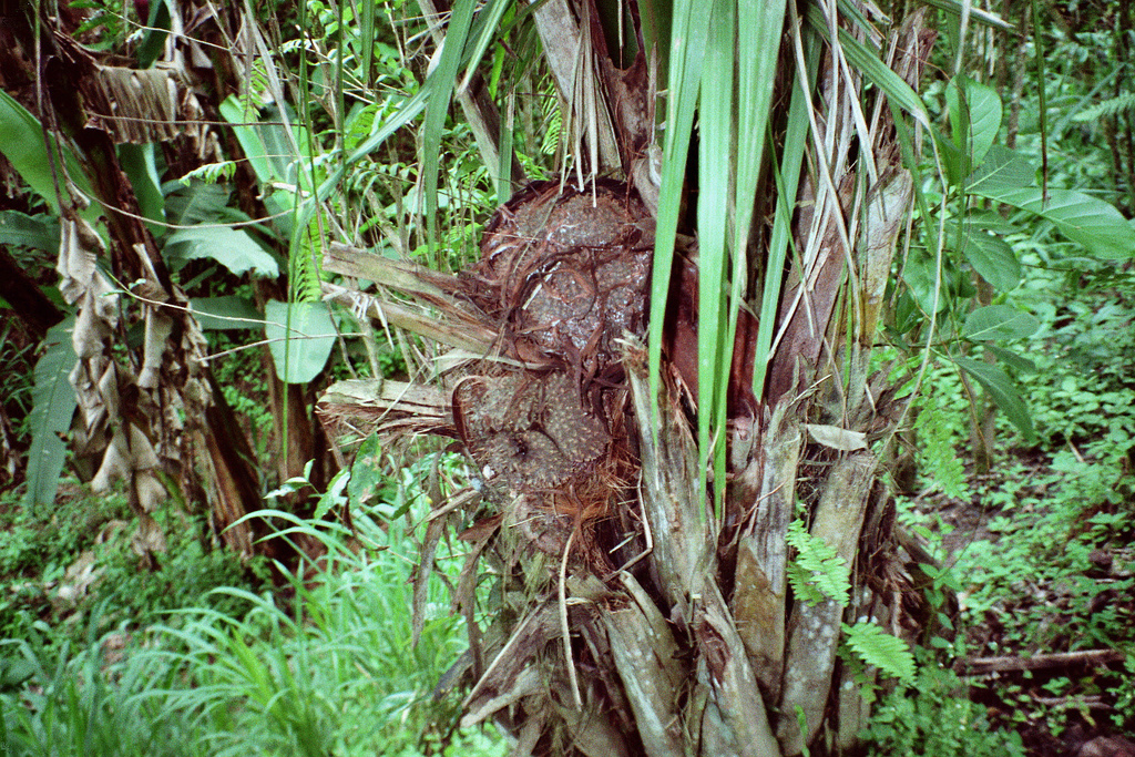 Tagua fruit photographed in Ecuador.